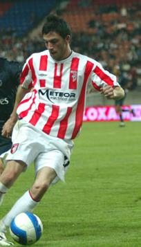 Cropped image of Killian Brennan (Derry City F.C.)